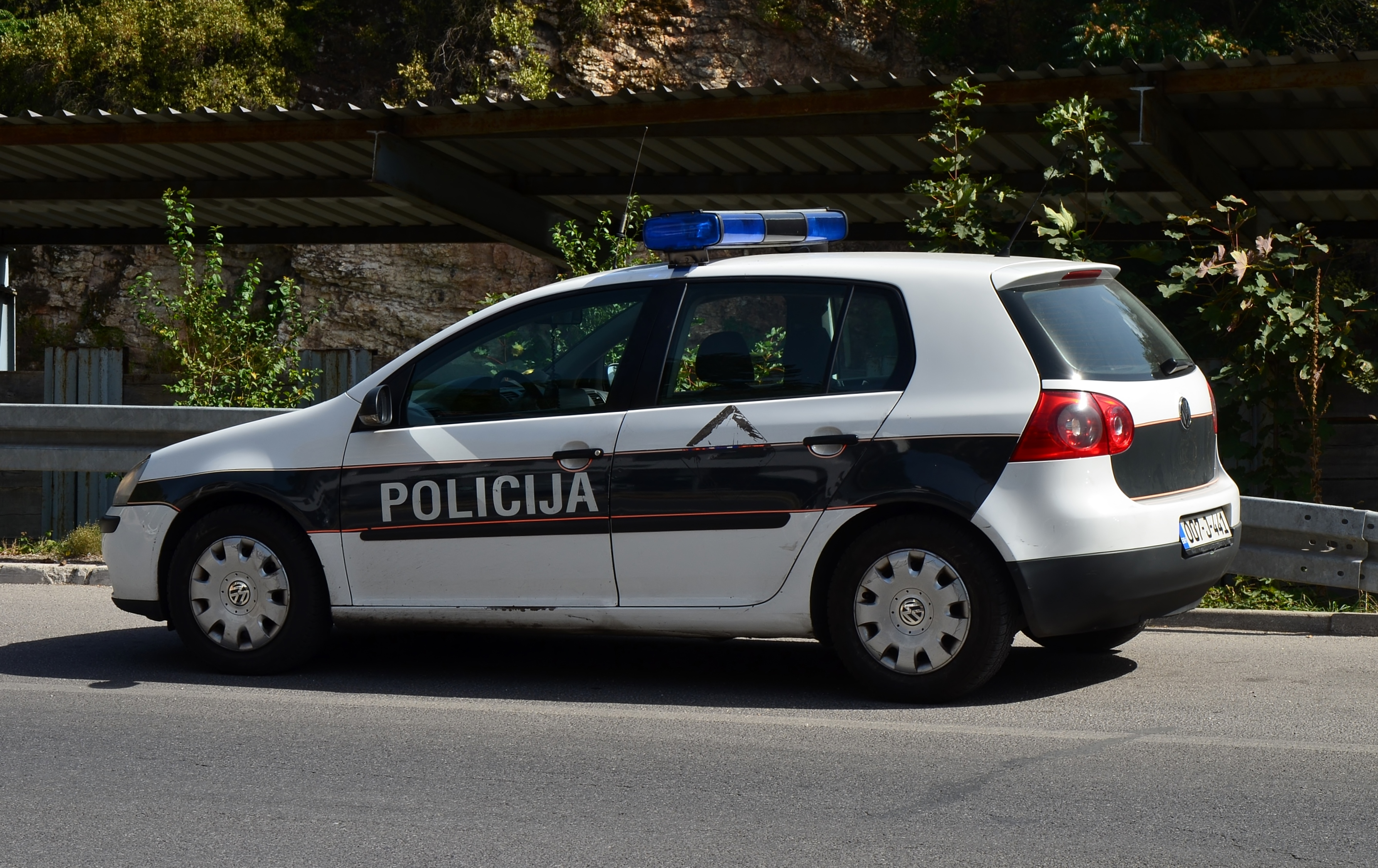 Police automobile in Bosnia and Herzegovina